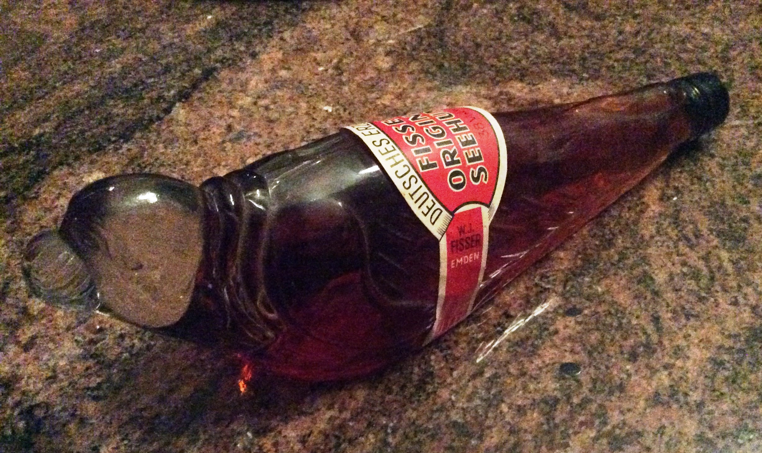 liqueur bottle by WJ Fisser Emden